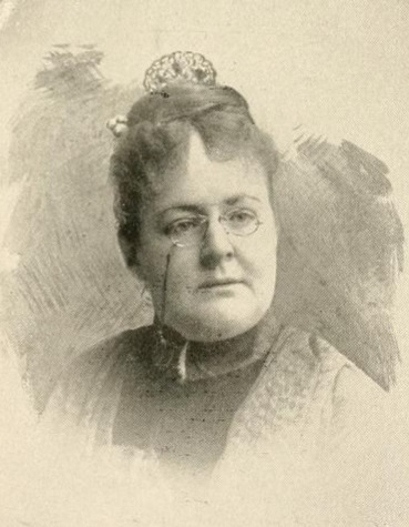 Photographic portrait of American author Harriett M. Lothrop (1844-1924). From American Women: Fifteen Hundred Biographies with Over 1,400 Portraits, Frances E. Willard and Mary A. Livermore, editors. Mast, Crowell & Kirkpatrick, 1897 (revised edition from 1893), vol. 2, p. 473. Cropped version.